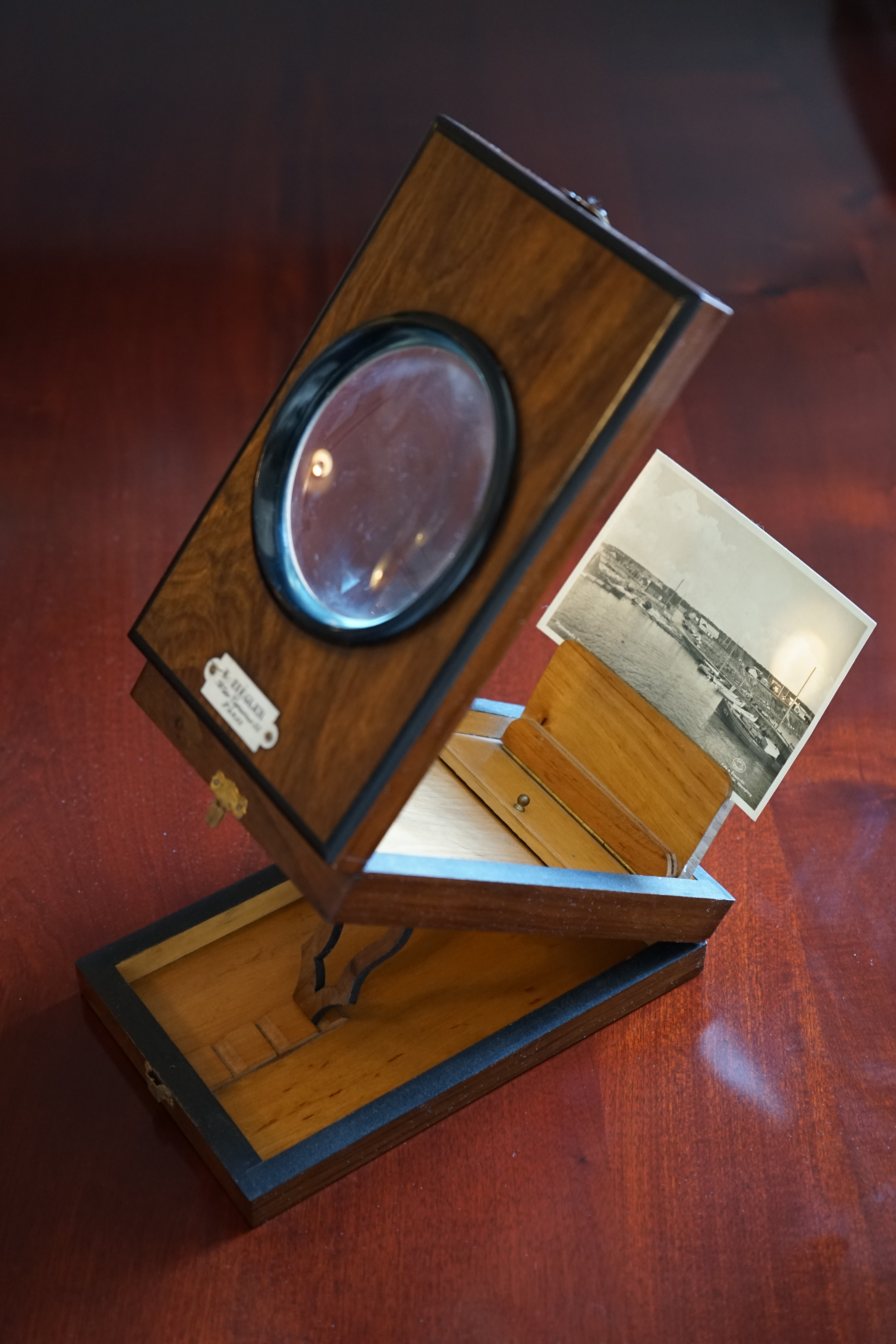 Graphoscope from E. Ziegler (Paris); ca. 1880; size: 13.5 cm (w) x 21 cm (d) x 33 cm (h); plate: E.Ziegler Bd.des Capucines 35 Paris